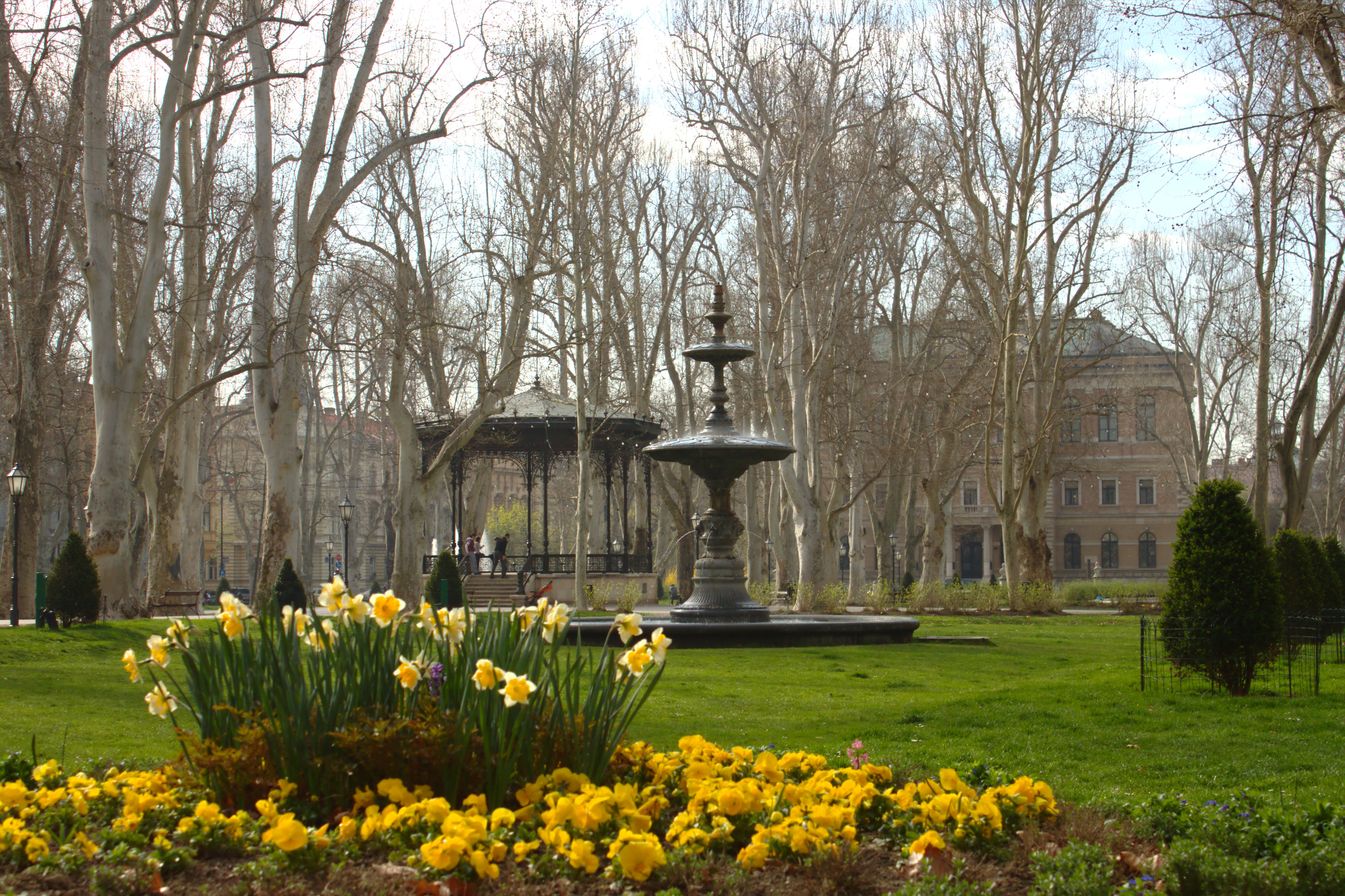 Early sprin Zrinjevac park in Zagreb, Croatia